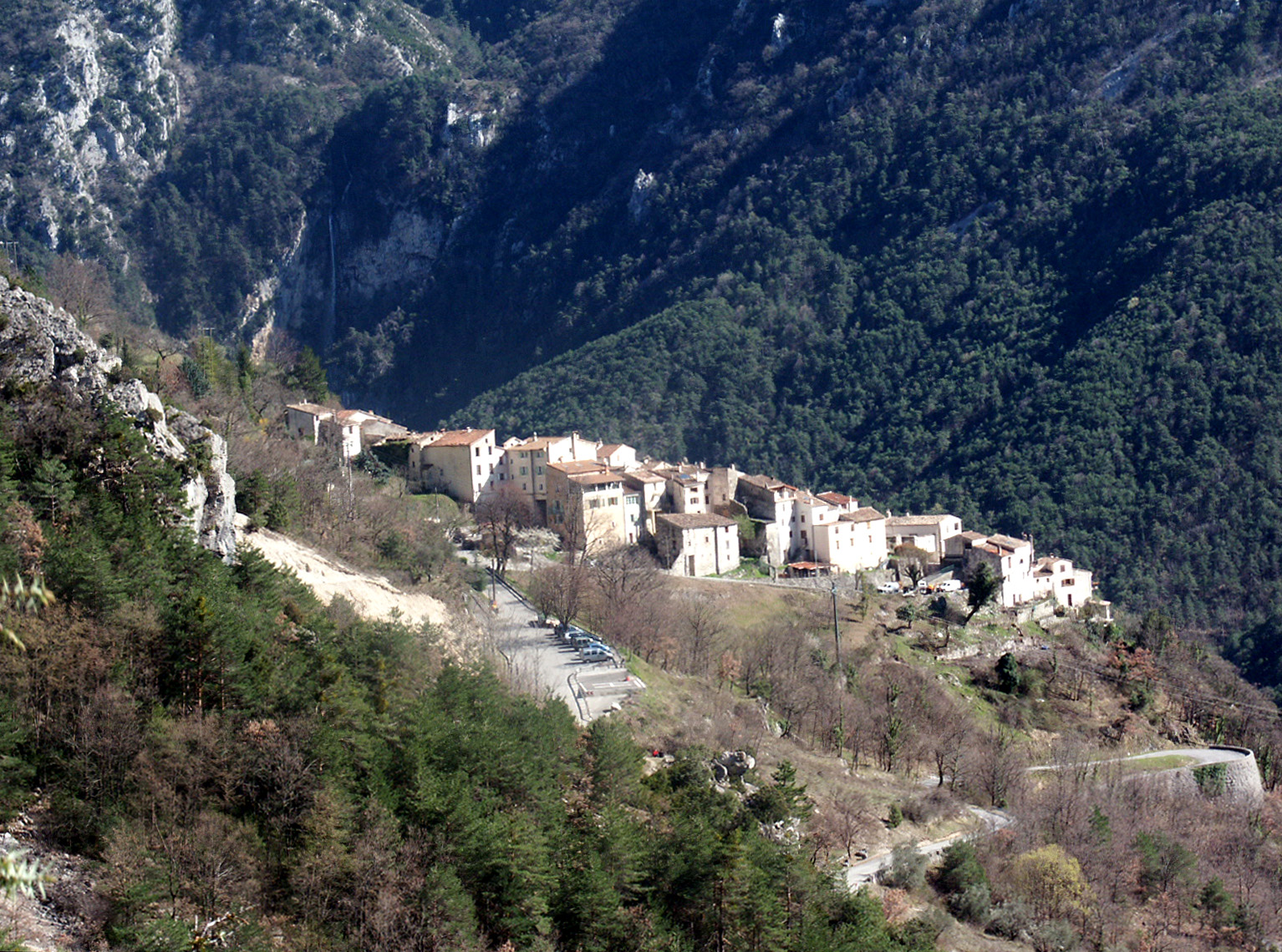 Aiglun village, Alpes-Maritimes, France